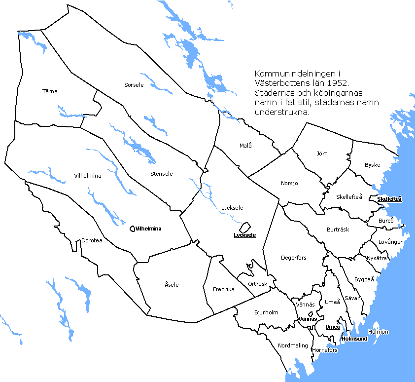 Municipalities of Västerbotten County 1952.